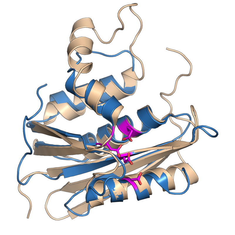 The ribonuclease H domain from the HIV-1 reverse transcriptase protein (blue), with the four active-site carboxylate residues shown in magenta. The domain is superposed on the ribonuclease HI domain from Escherichia coli (tan). Rendered from PDB 3K2P (HIV) and 2RN2 (E. coli). Structure of HIV-1 reverse transcriptase with the inhibitor beta-Thujaplicinol bound at the RNase H active site. Himmel, D.M., Maegley, K.A., Pauly, T.A., Bauman, J.D., Das, K., Dharia, C., Clark, A.D., Ryan, K., Hickey, M.J., Love, R.A., Hughes, S.H., Bergqvist, S., Arnold, E. (2009) Structure 17: 1625-1635 PubMed: 20004166 PubMedCentral: PMC3365588 Structural details of ribonuclease H from Escherichia coli as refined to an atomic resolution. Katayanagi, K., Miyagawa, M., Matsushima, M., Ishikawa, M., Kanaya, S., Nakamura, H., Ikehara, M., Matsuzaki, T., Morikawa, K. (1992) J.Mol.Biol. 223: 1029-1052 PubMed: 1311386